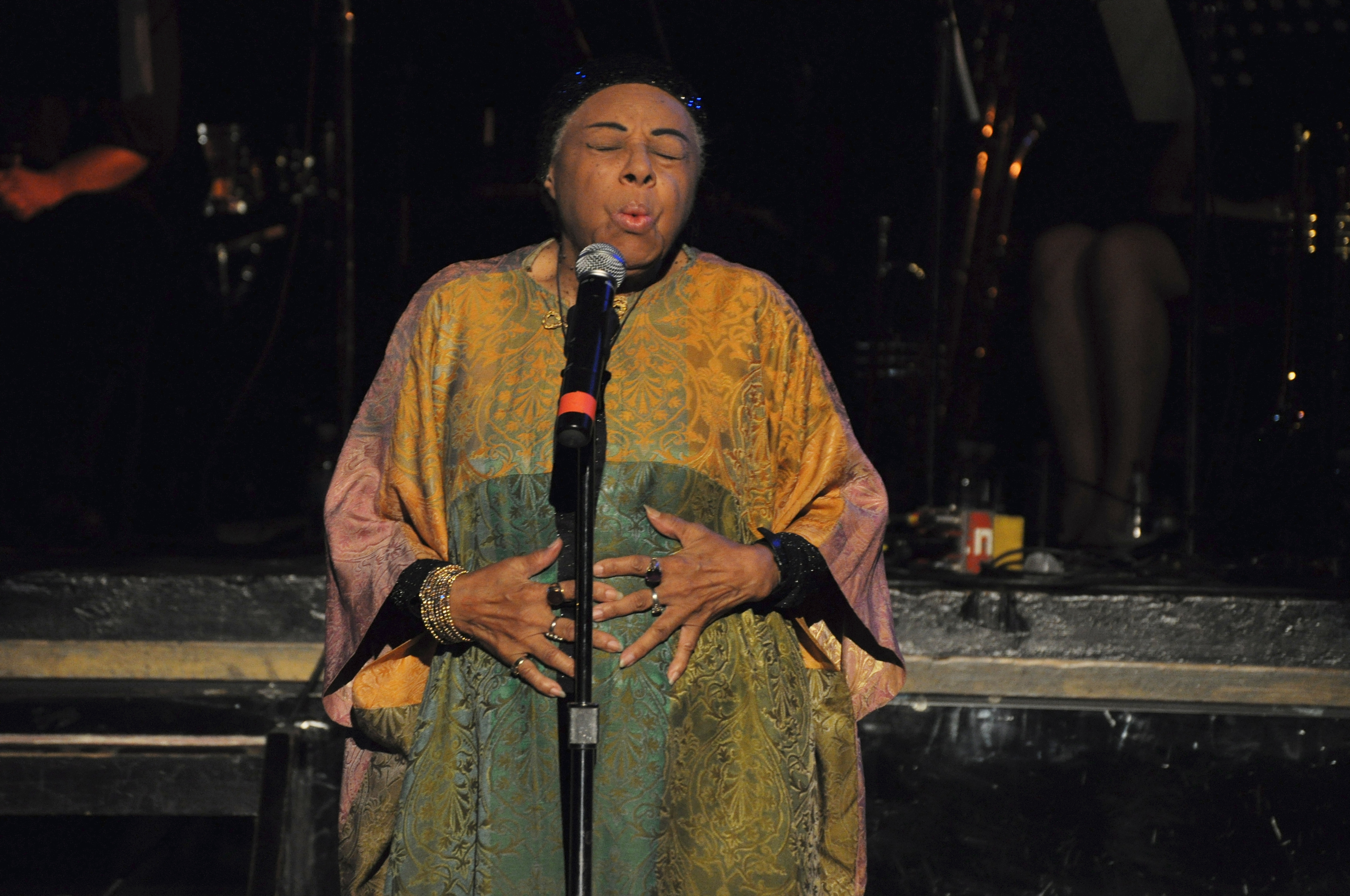 Singer Dawn Hampton appearing at Masters of Lindy Hop and Tap, Century Ballroom, Oddfellows Temple, Pine Street, Capitol Hill, Seattle, Washington, USA. See Dawn Hampton on the site of that event for more about Hampton.